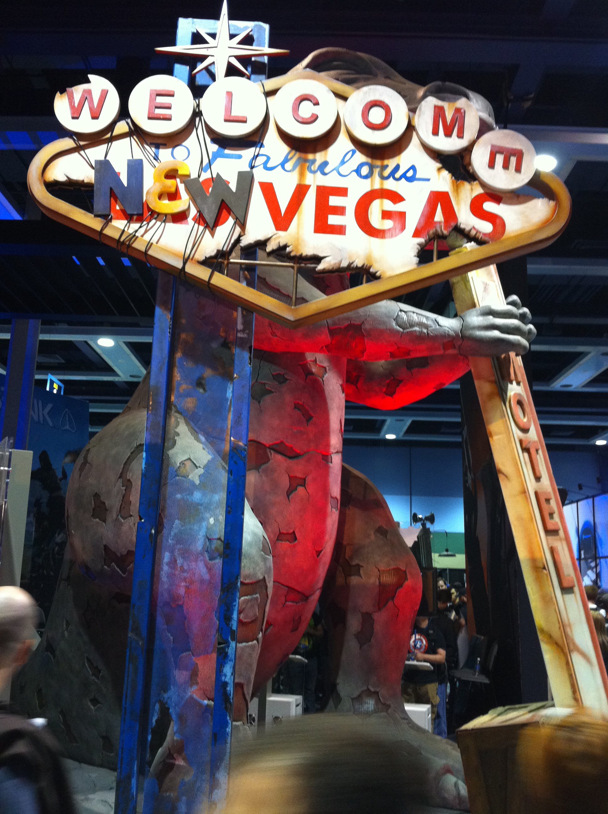 Welcome to Fabulous NEW VEGAS